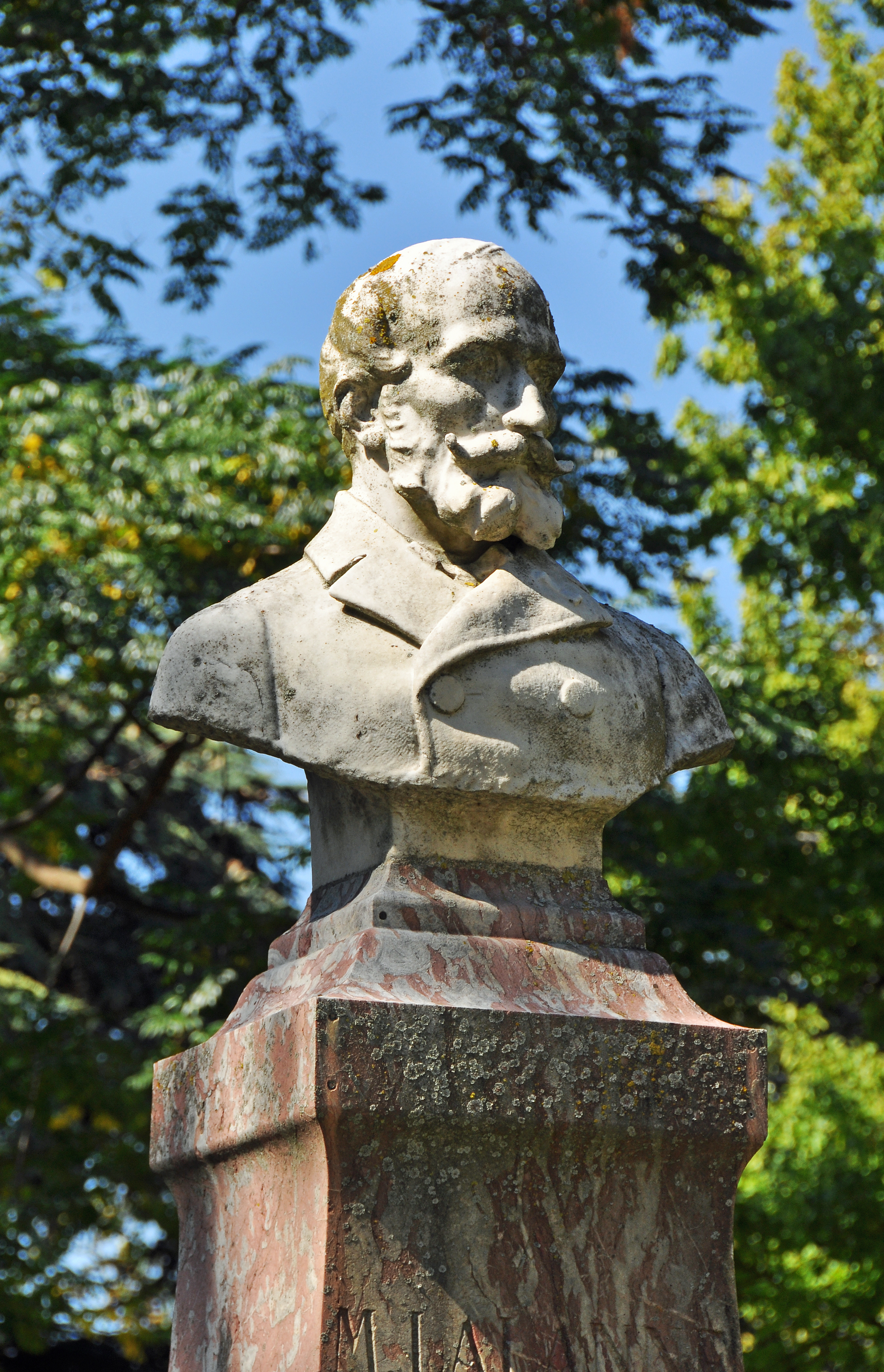 Bust of the French draughtsman and etcher Maxime Lalanne (1827-1886) in the municipal park of Bordeaux (France), by the sculptor Pierre Granet (1843-1910)